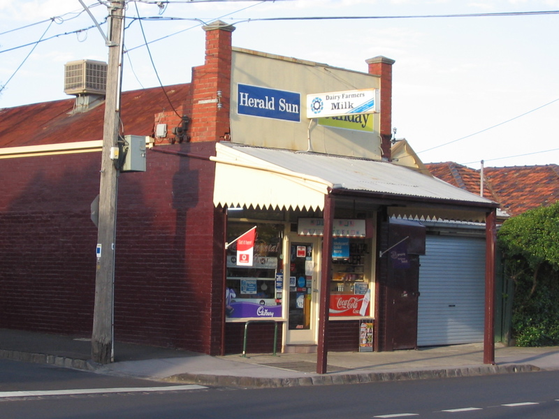 A milk bar, located on the north-east corner of Rae Street and Miller Street, Fitzroy North, Victoria, Australia. Milk bars (or 'corner stores') are a dying trade in Australia, gradually being usurped by supermarkets, convenience stores, and petrol stations.